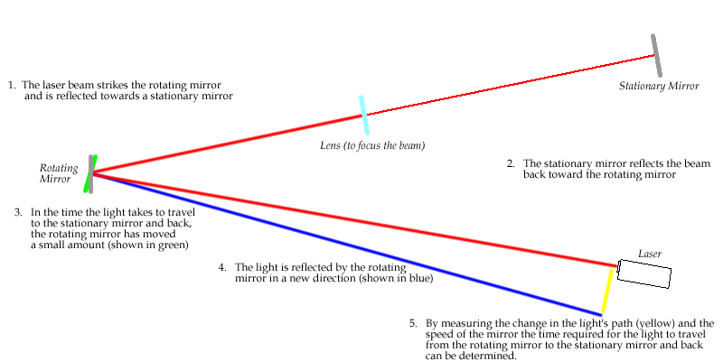 A diagram showing a modern approach to measuring the speed of light using Foucault's rotating mirror method.